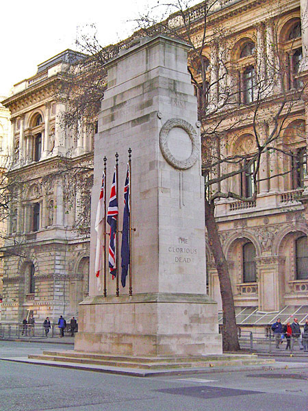 The Cenotaph, London.